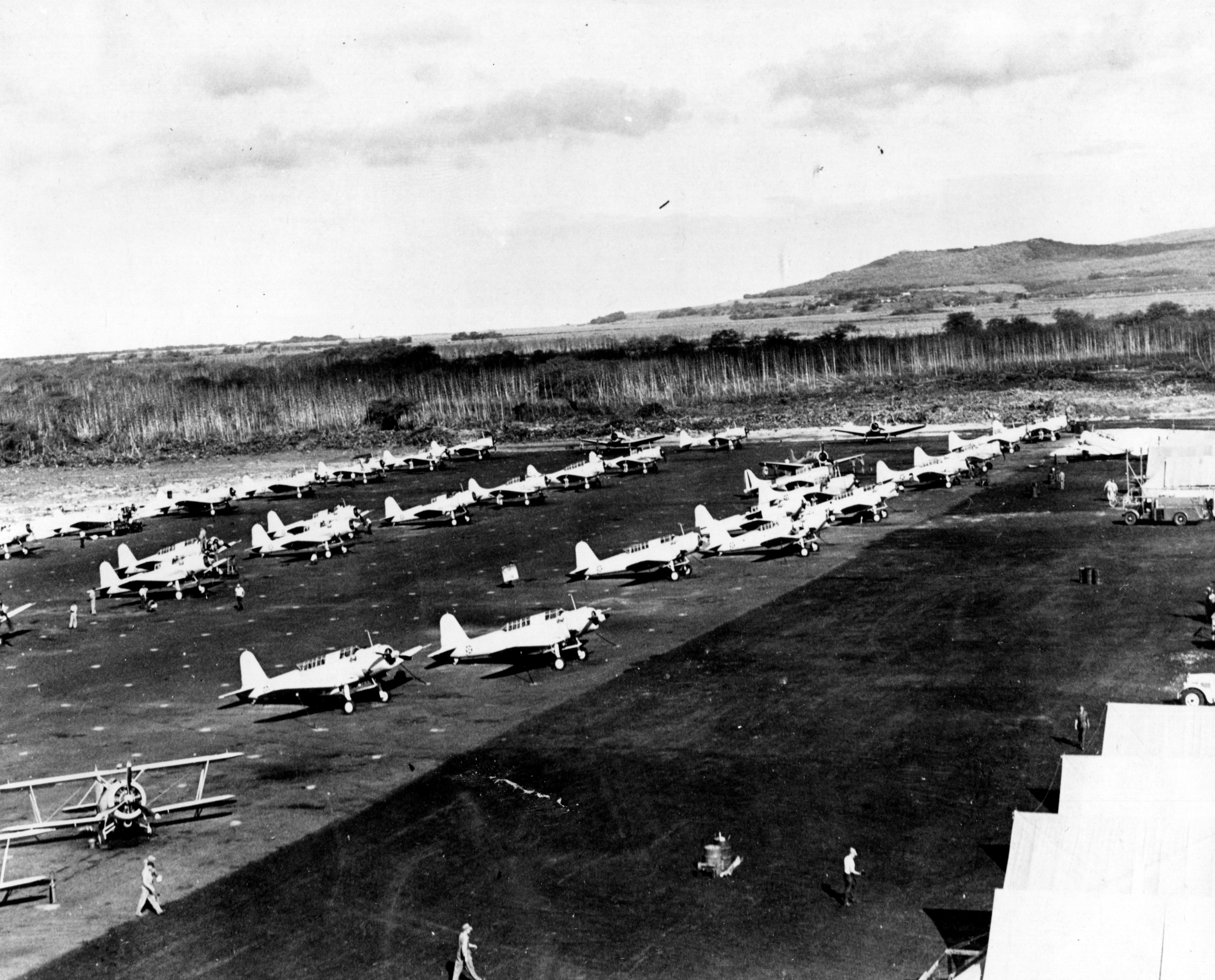 Hdqtrs. No. 145092 / Official U.S. Marine Corps / Department of Defense Photo